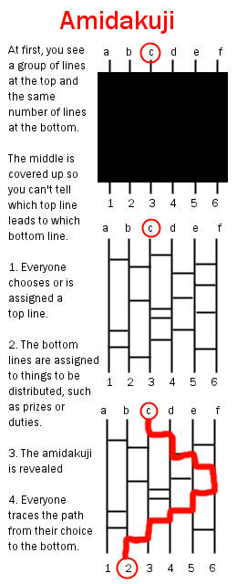 An example of how an amidakuji can be done.